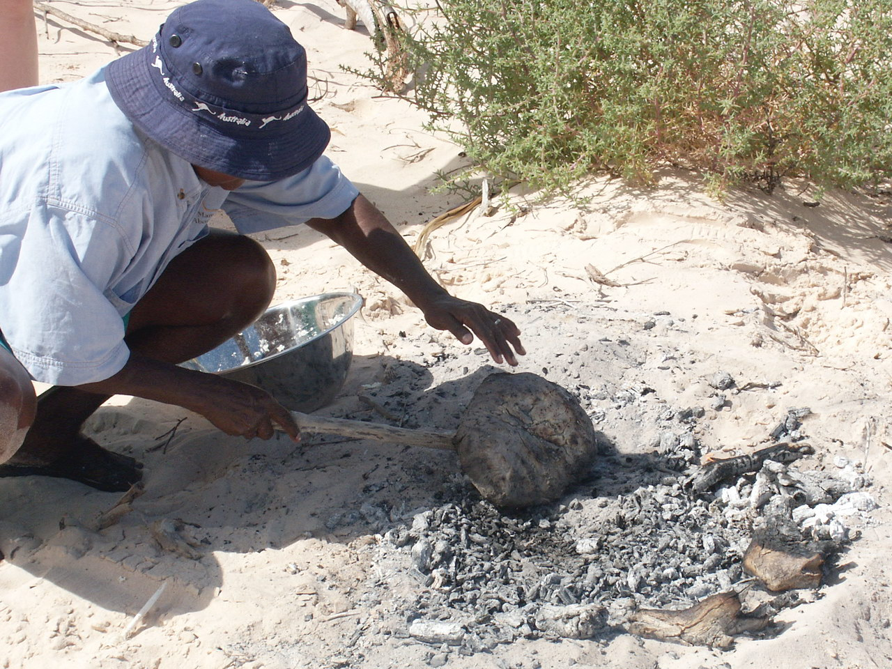 Damper being prepared over hot coals. Near Broome, Western Australia